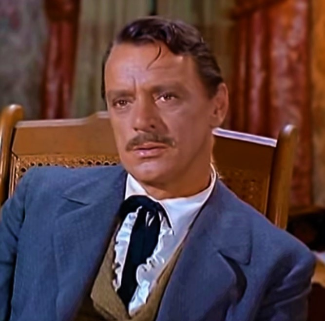 Harry Townes in the TV series Bonanza, episode The Mill (cropped screenshot)